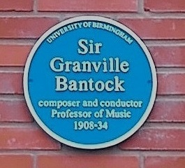 University of Birmingham - Bramall Music Building - blue plaque to Granville Bantock